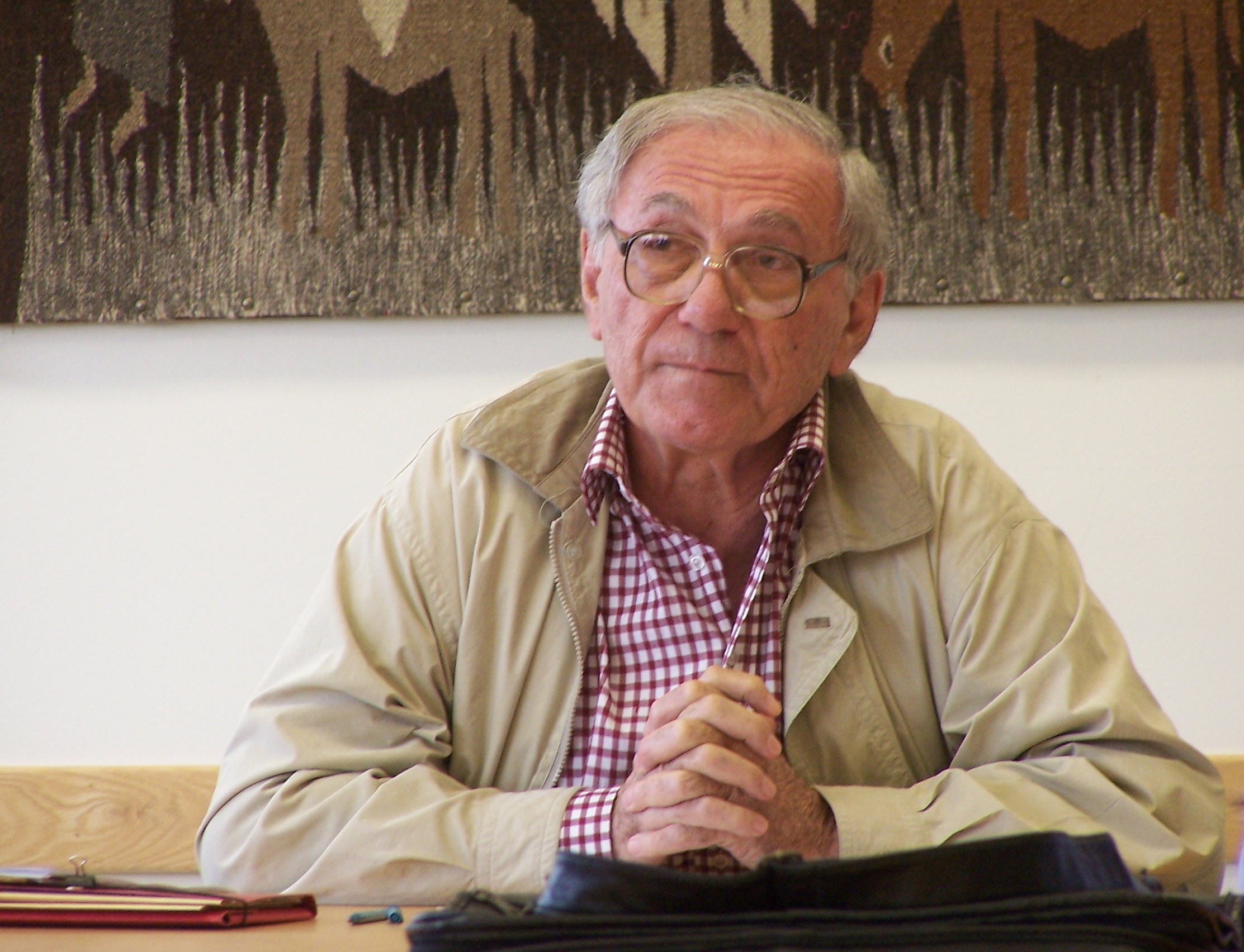 Sadik J. al-Azm at University of California, Los Angeles, 2006 Lecture at Dept. of Near Eastern Studies